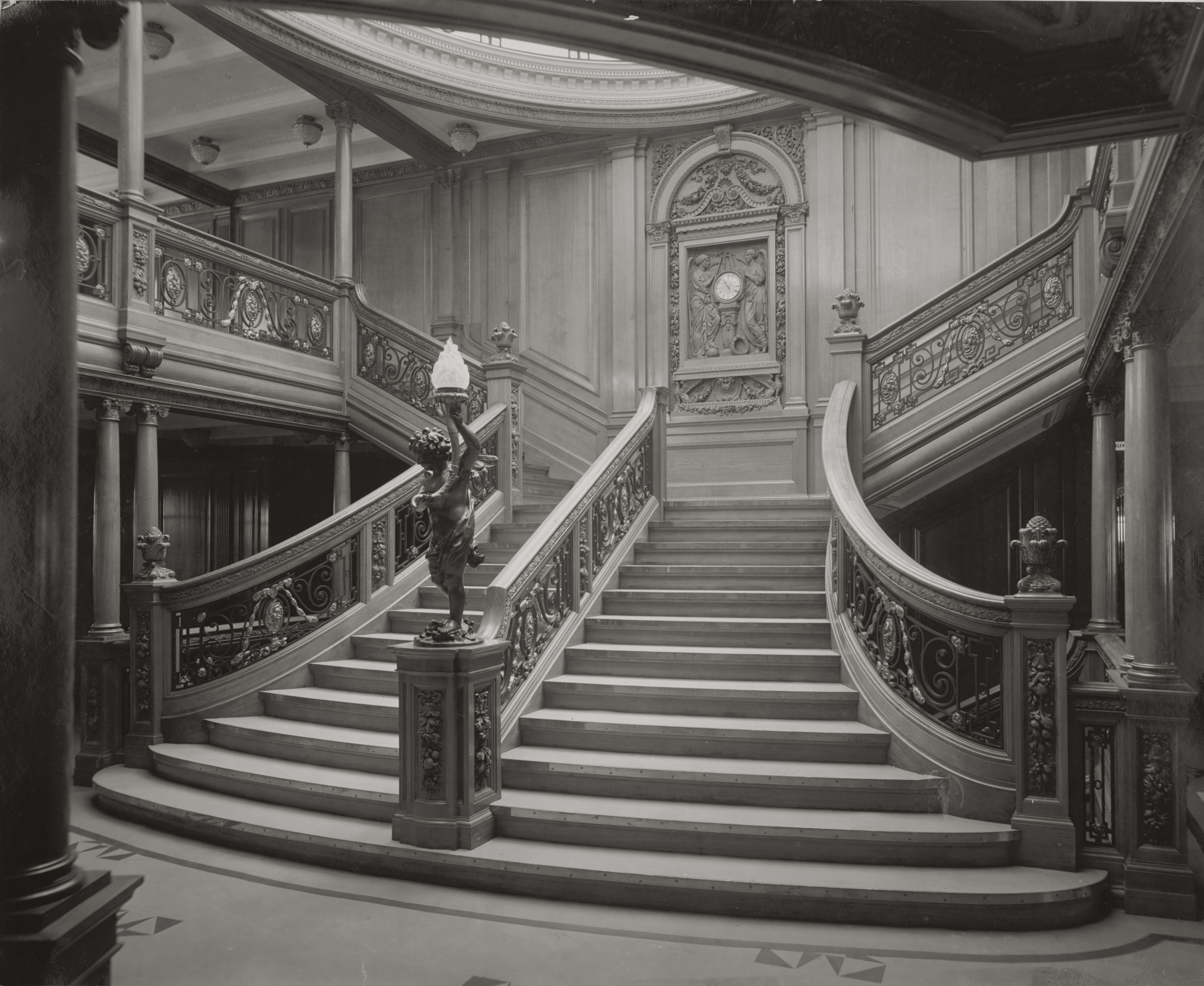 The grand staircase on the RMS Olympic, photographed in 1911 by William H. Rau.